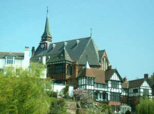 Boughton St Pauls